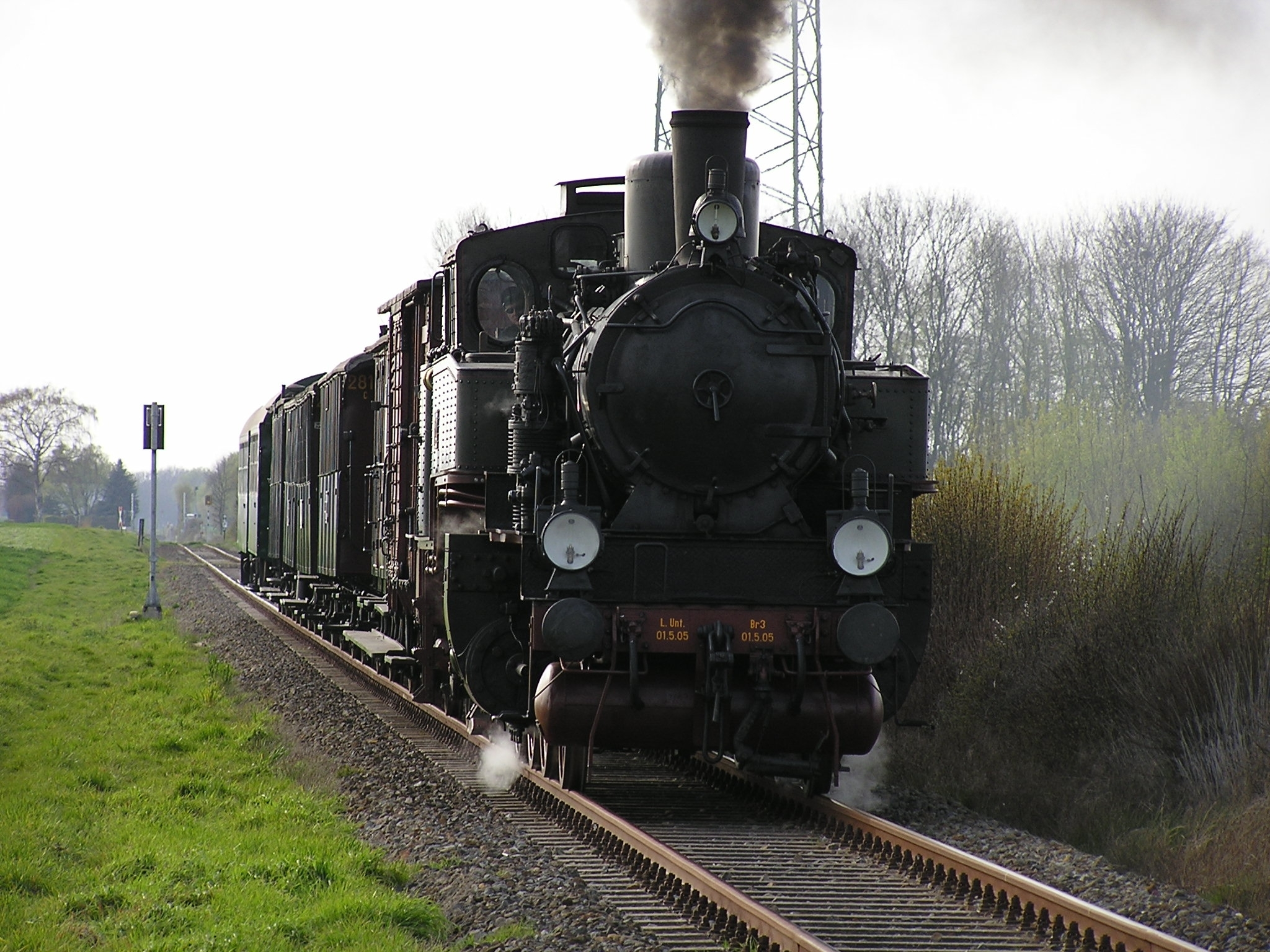 Narrow gauge steam locomotive near Hille-Hartum, Minden-Lübbecke District, North Rhine-Westphalia, Germany.